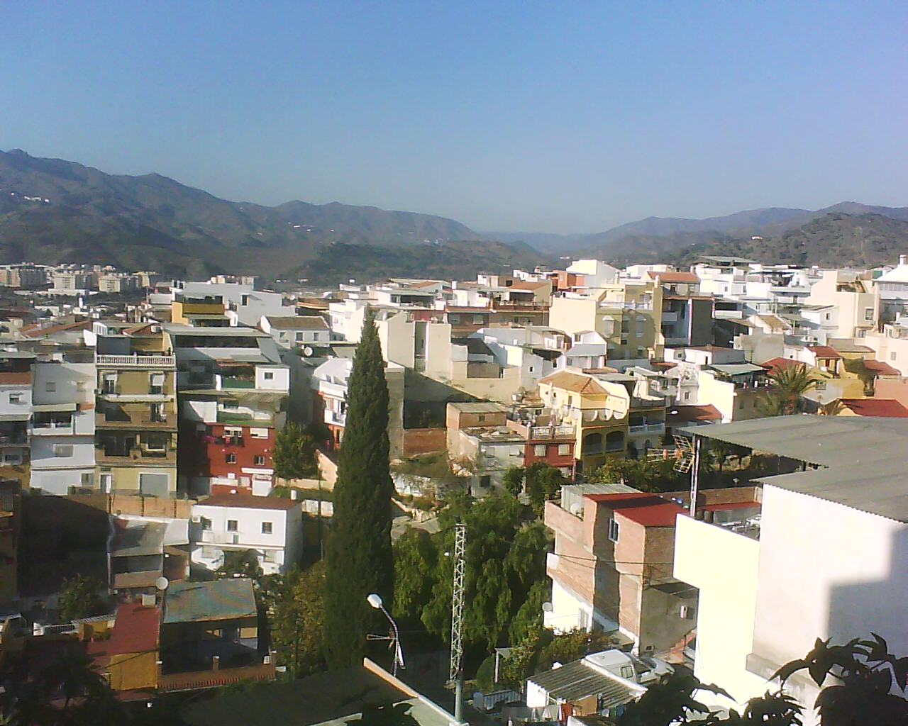 View of Mangas Verdes neighbourhood, Málaga.